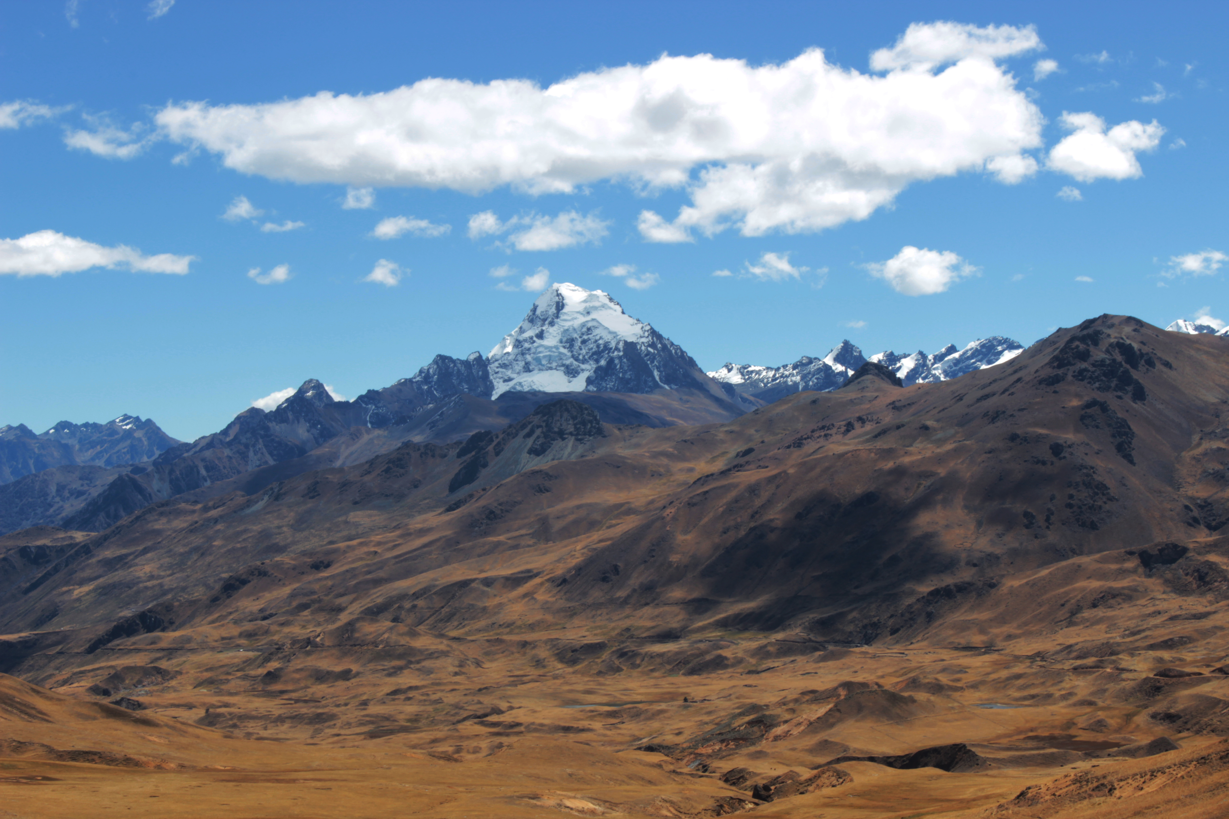 Waqshash